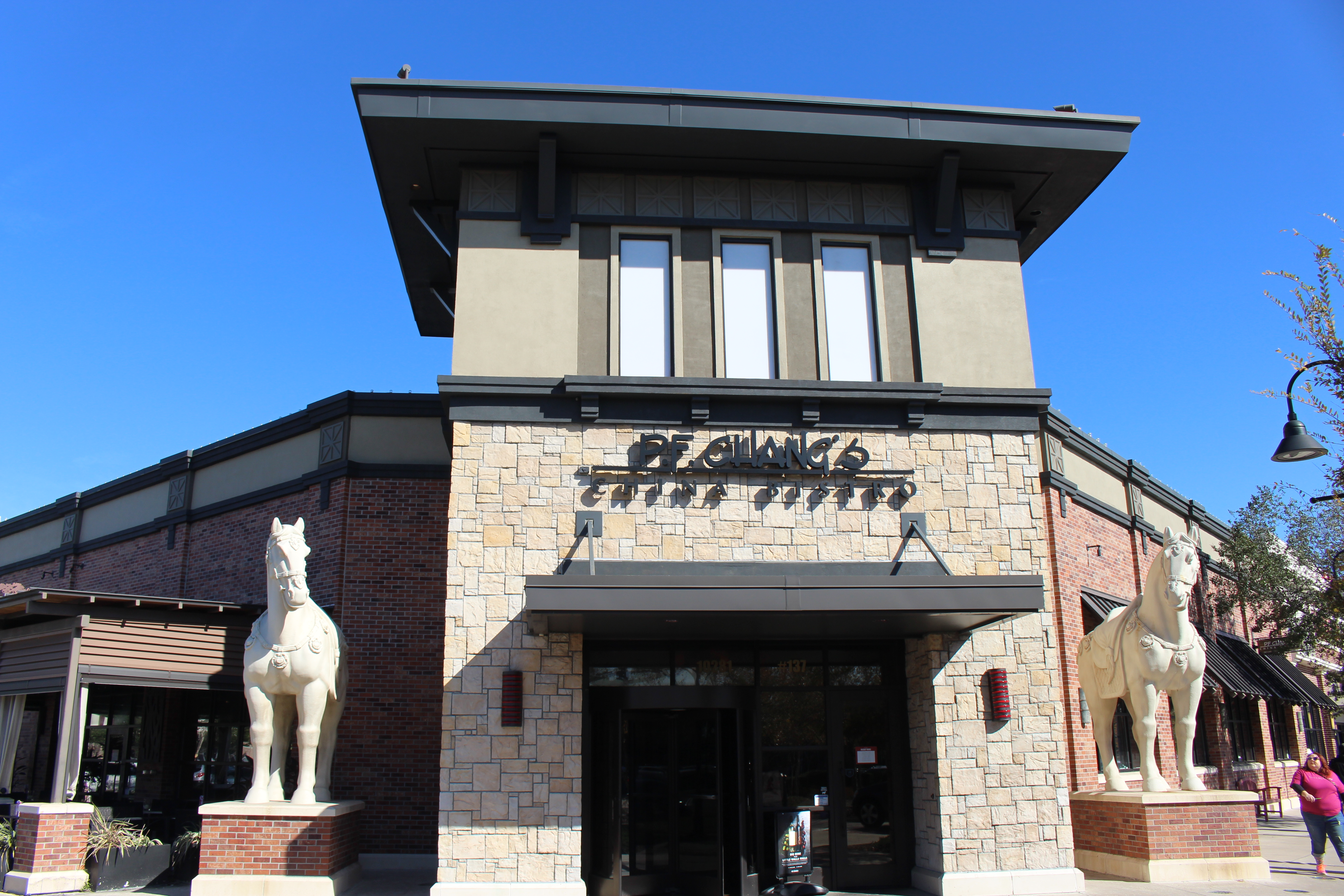 St. Johns Town Center, Jacksonville, Duval County, Florida